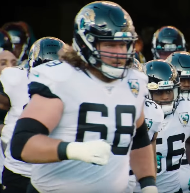 Andrew Norwell 2019. Image from video Titans Mic'd Up vs. Jaguars (Week 12) | Sounds of the Game, ~ 00:26